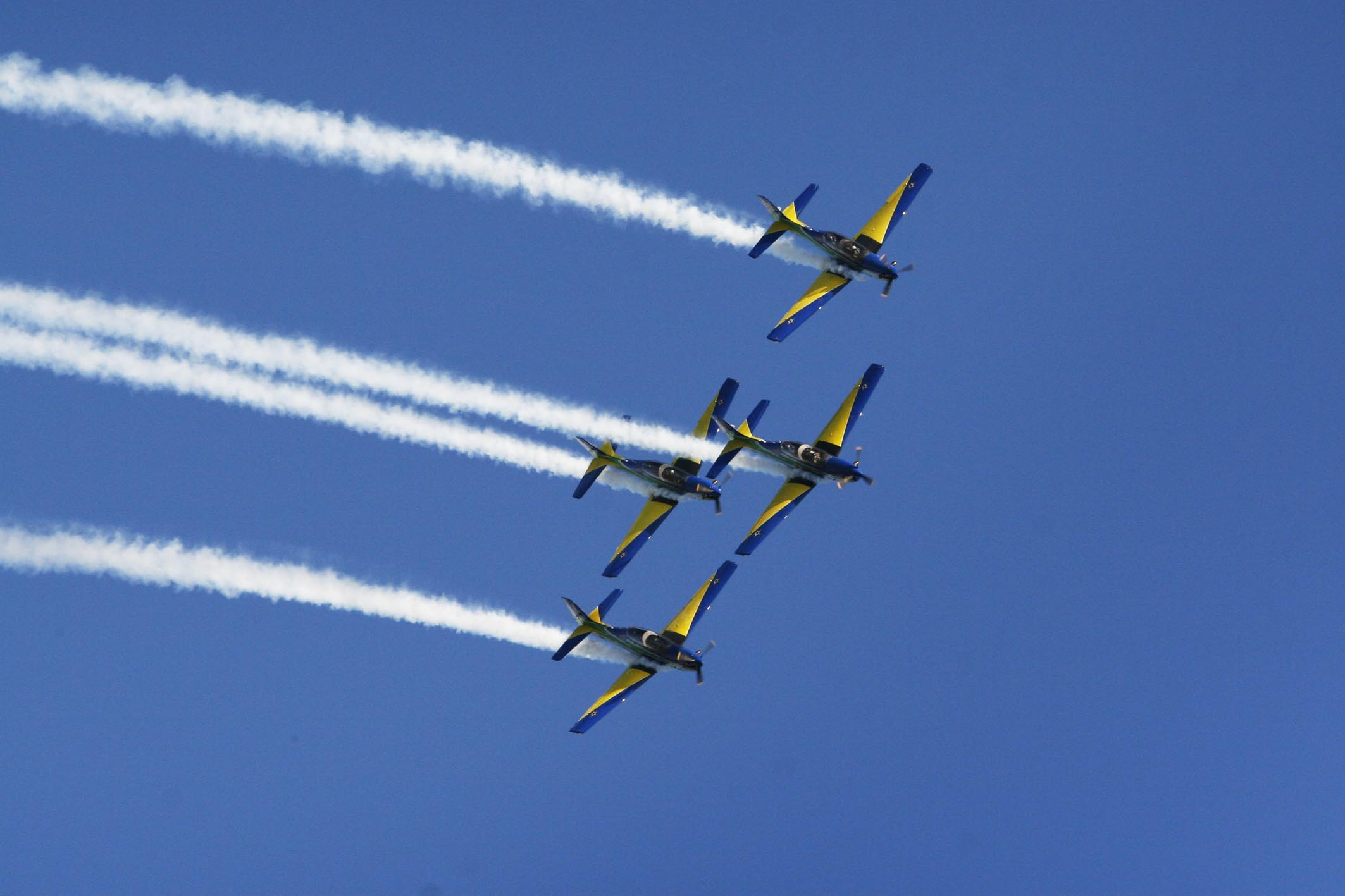 The Brazilian Esquadrilha da Fumaça’s Tucanos in a formation flight during a display in Salvador.